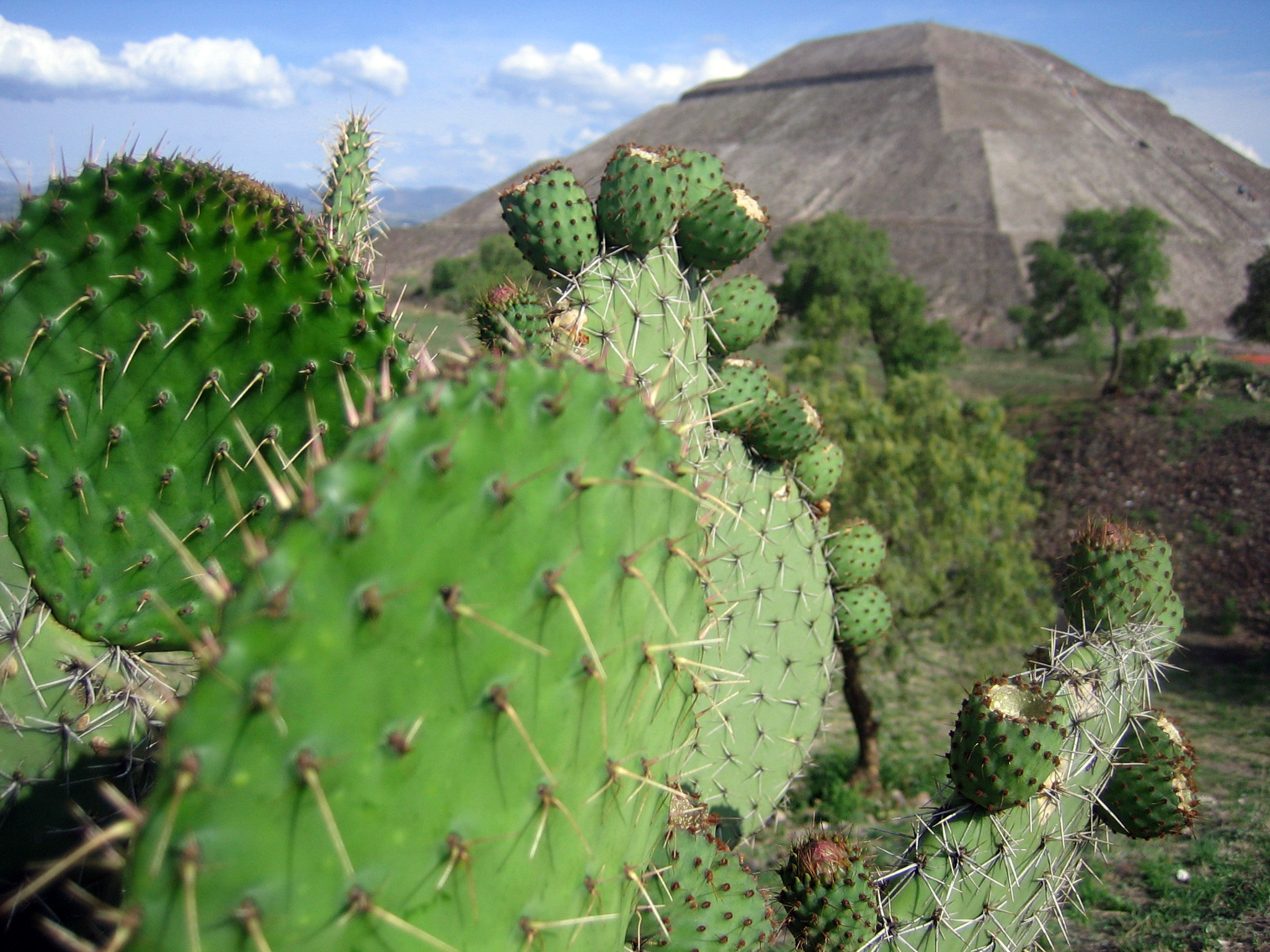 Close up of a prickly pear cactus with Pyramid of the Sun in the background in Teotihuacán.